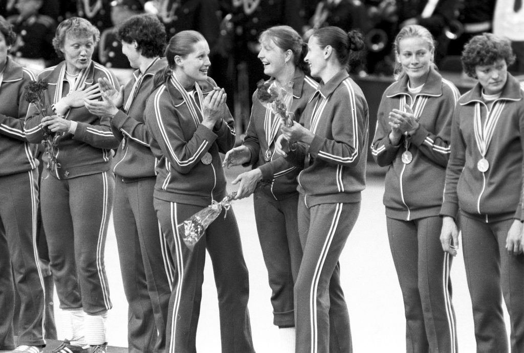 “USSR female handball team wins 1980 Olympic Games”. The USSR female handball team at an awarding ceremony at the 22nd Summer Olympic Games (July 19 - August 3).